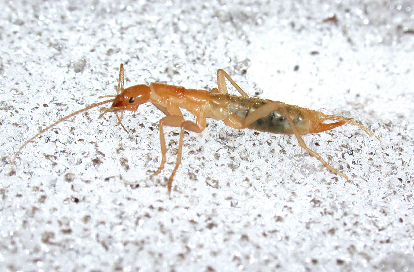 One of the world's rarest and least understood insects, a grylloblattid ice crawler (Grylloblatta sp.). Photographed live at night on an ice field, Northern California, USA.